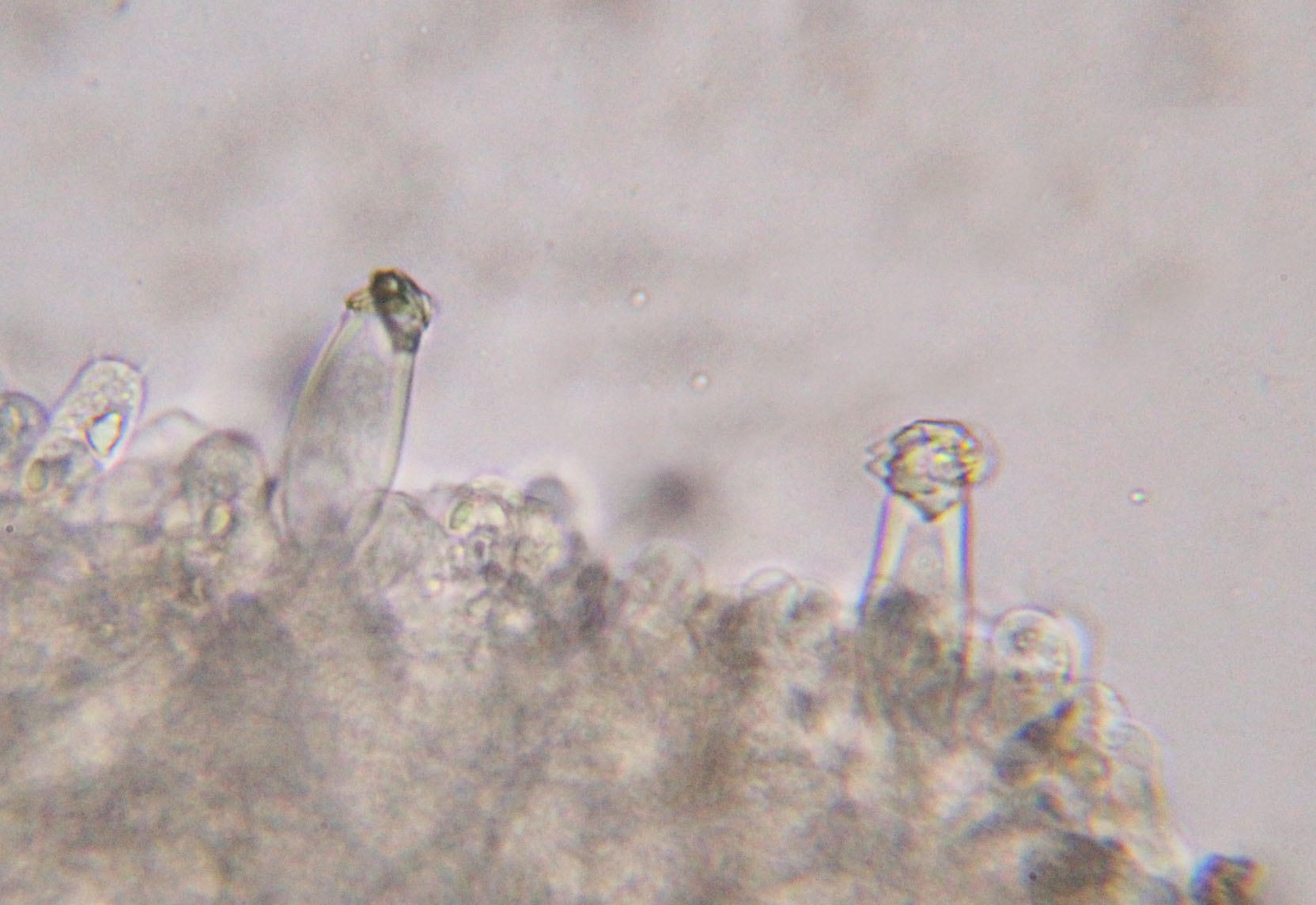 Inocybe fibrosa ss Kauffman Observation Notes: A Inocybe fibrosa fungi on soil under hardwoods (Quercus, Juglans nigra, Acer, Liriodendron) at the Kahite Trail, Vonore, Tennessee, USA. Large white Inocybe, cap diameter 5.5 cm. For more information about this, see the observation page at Mushroom Observer.